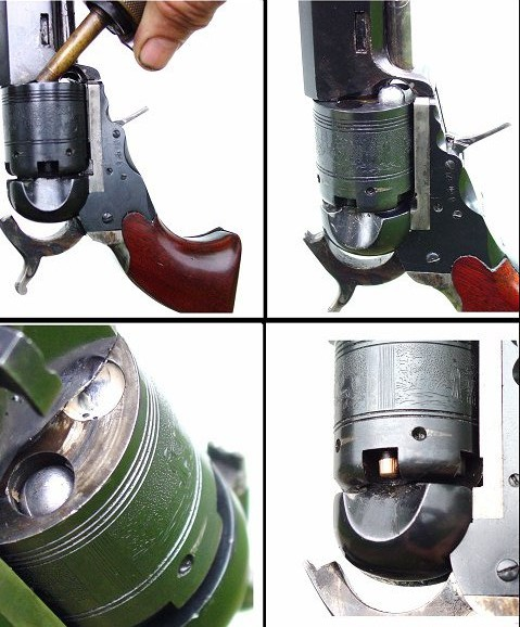 Loading sequence for Colt and other percussion revolvers